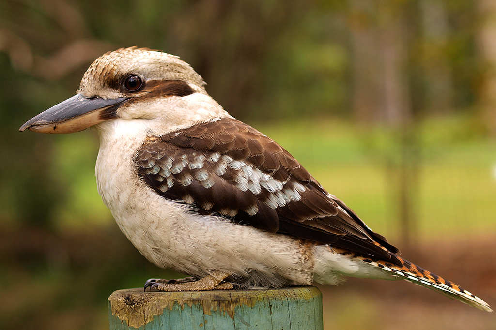 A Laughing Kookaburra in Brisbane, Australia.